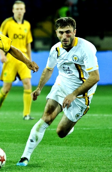 Karlen Mkrtchyan is an Armenian football player